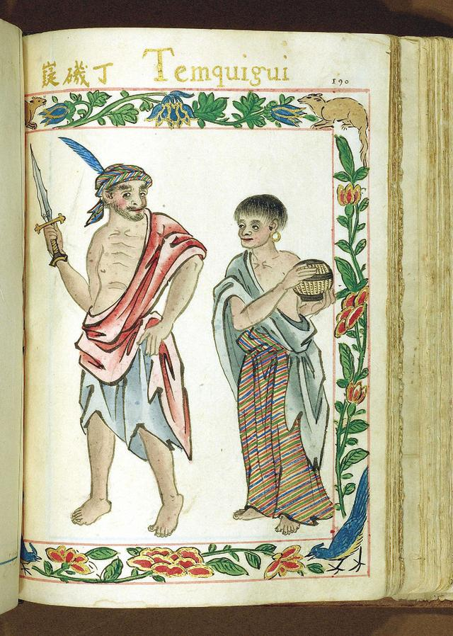 "丁磯嶷 Temquigui" - Couple from Terangganu, Malaysia - Boxer Codex (1590) Observed by the Colonial Spanish Authorities in Manila, Philippines around 1590 AD